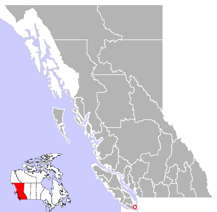 Location of Colwood